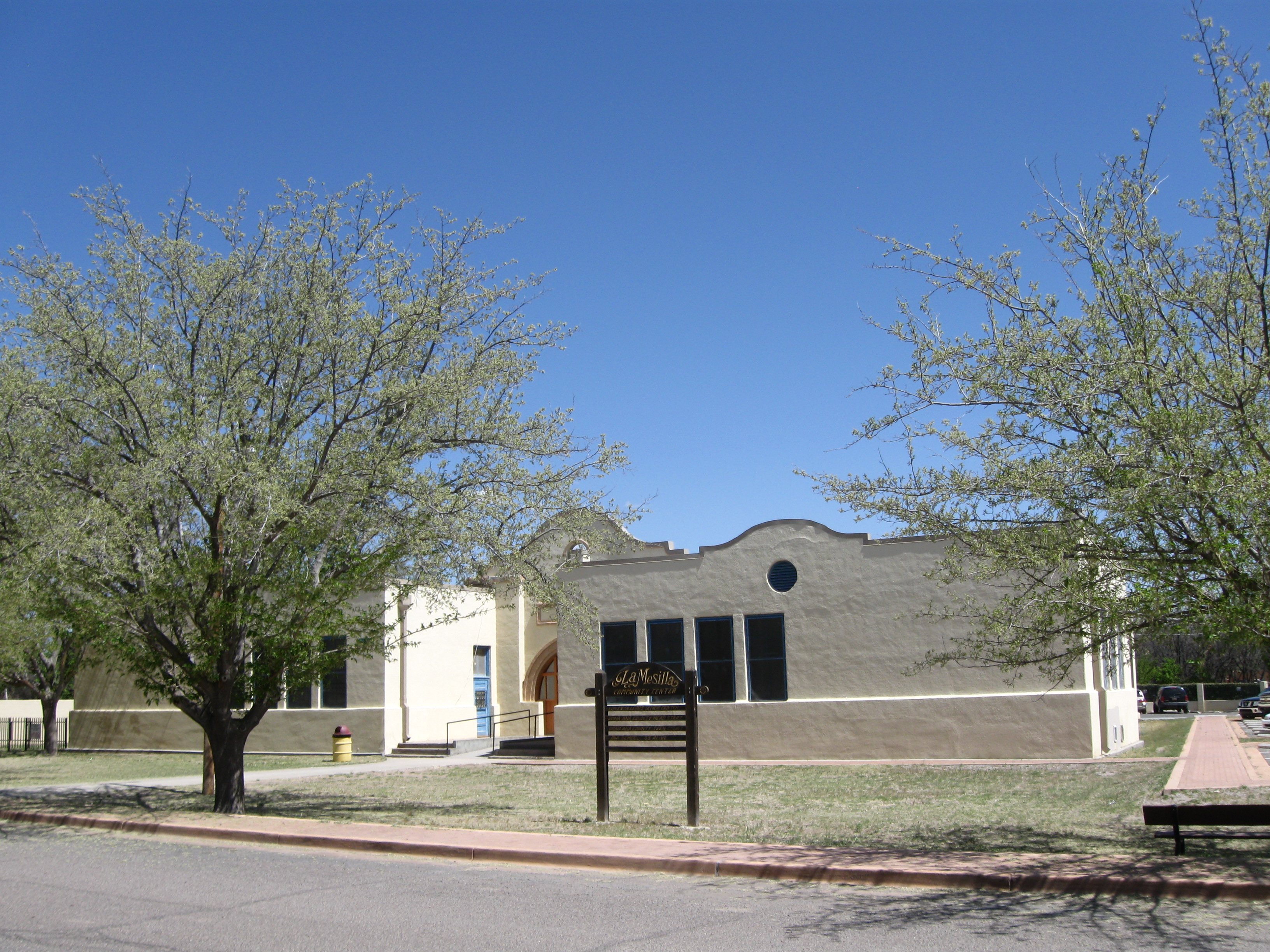 La Mesilla Community Center, located in Mesilla, New Mexico at 2251 Calle de Santiago. The building houses a senior center, a Head Start program, Teen Court, and Driving While Intoxicated (DWI) School.